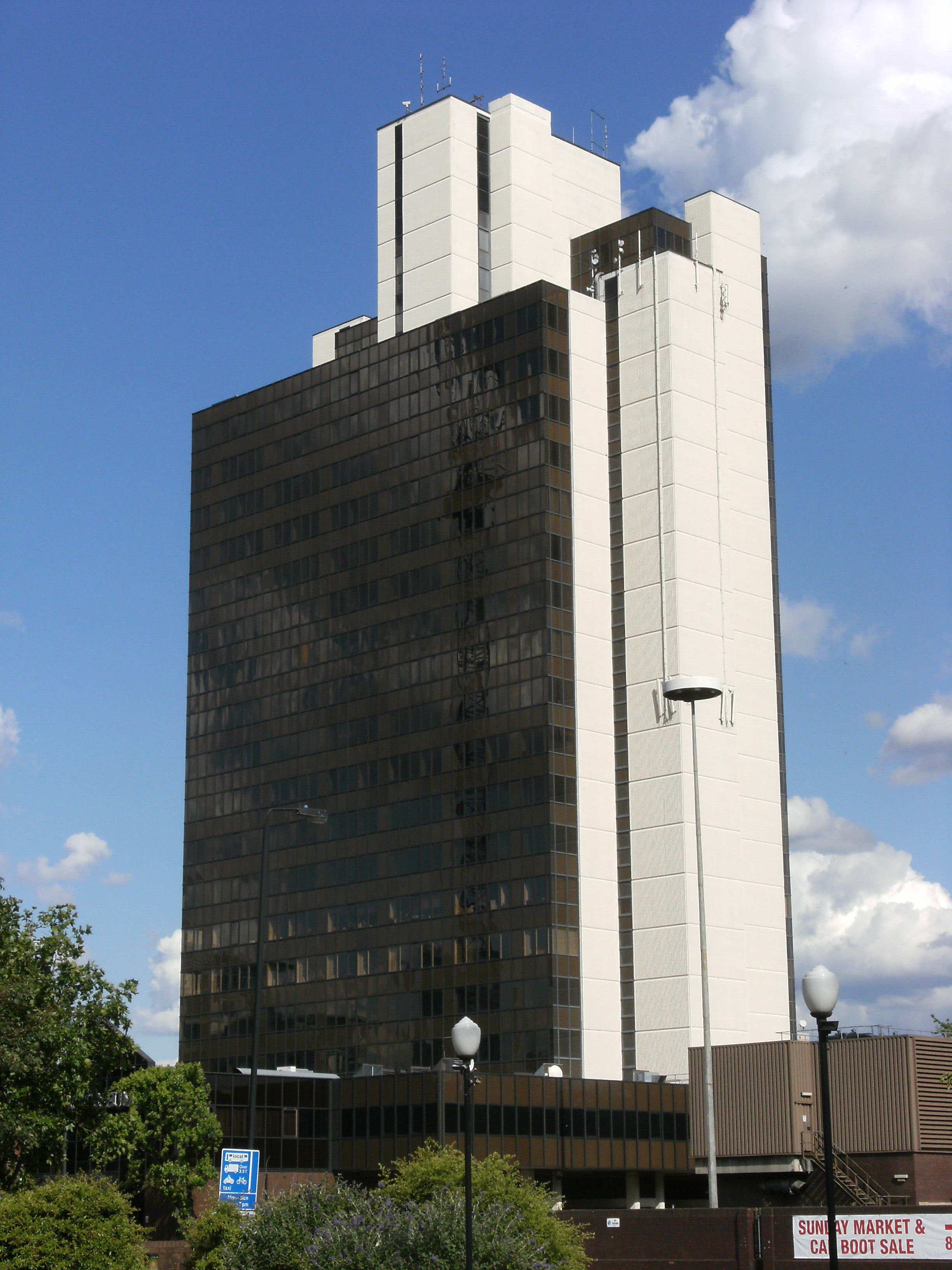 Market Towers, 1 Nine Elms Lane, Vauxhall, London SW8.